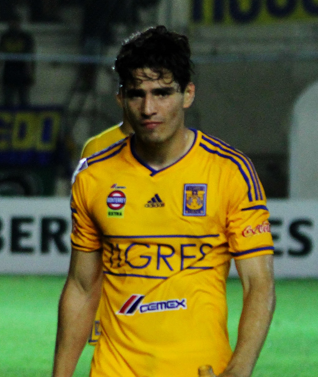 Manta, 19 de may (Andes).-Tigres de México cayó 1x0 ante Emelec en el partido de ida por los cuartos de finales de la Copa Libertadores, el partido se jugó en el estadio Jockay de la ciudad de Manta, ManabíFotos:César Muñoz/Andes